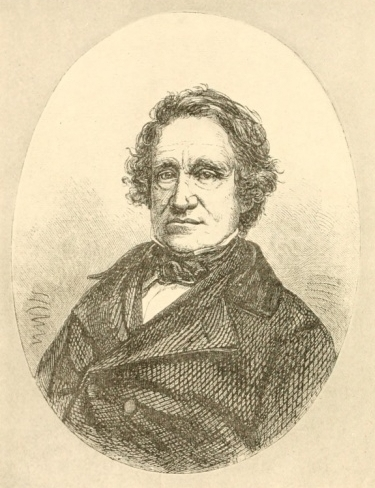 Baynard Rush Hall, a clergyman and educator, from The New Purchase, Or, Early Years in the Far West, Volume 1, Parts 1-2, By Baynard Rush Hall. New Albany, Indiana, 1855; republished--Princeton: Princeton University Press, 1916